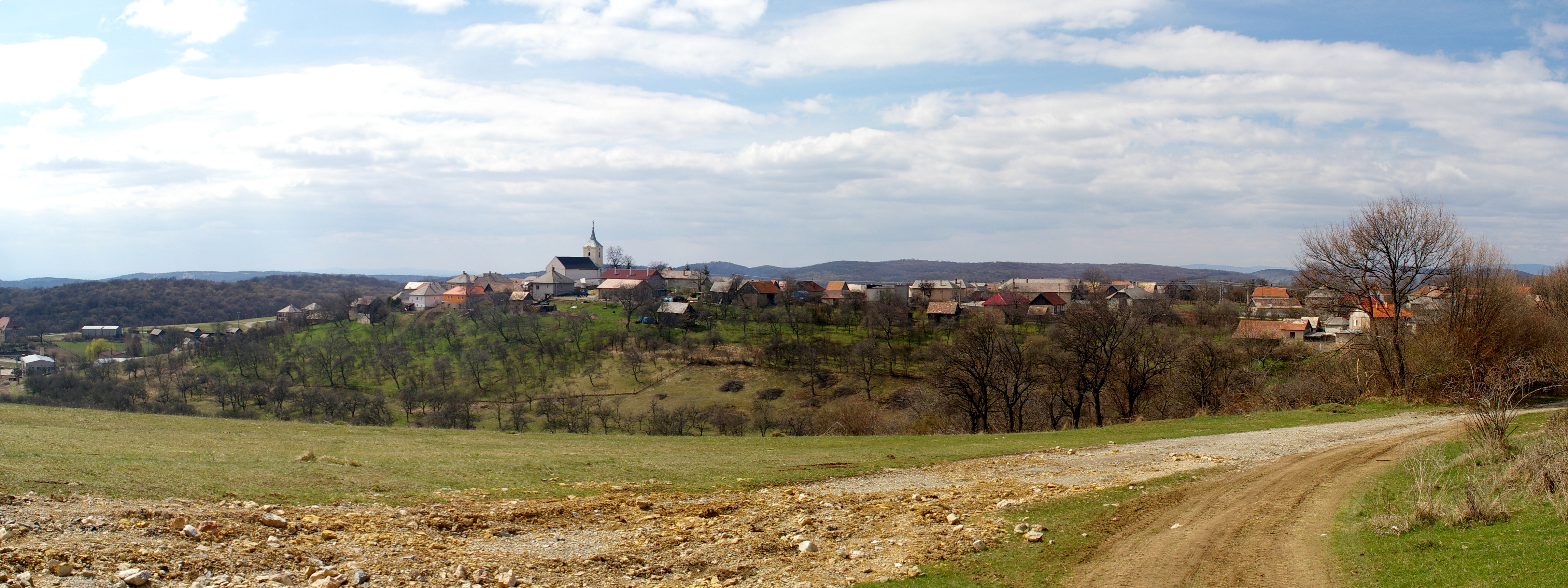 Panorama of village Silica (Slovakia) from eastern